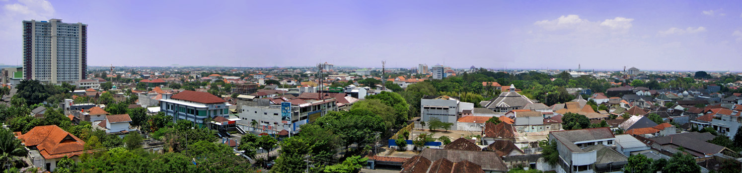 Surakarta (Solo City) Day View